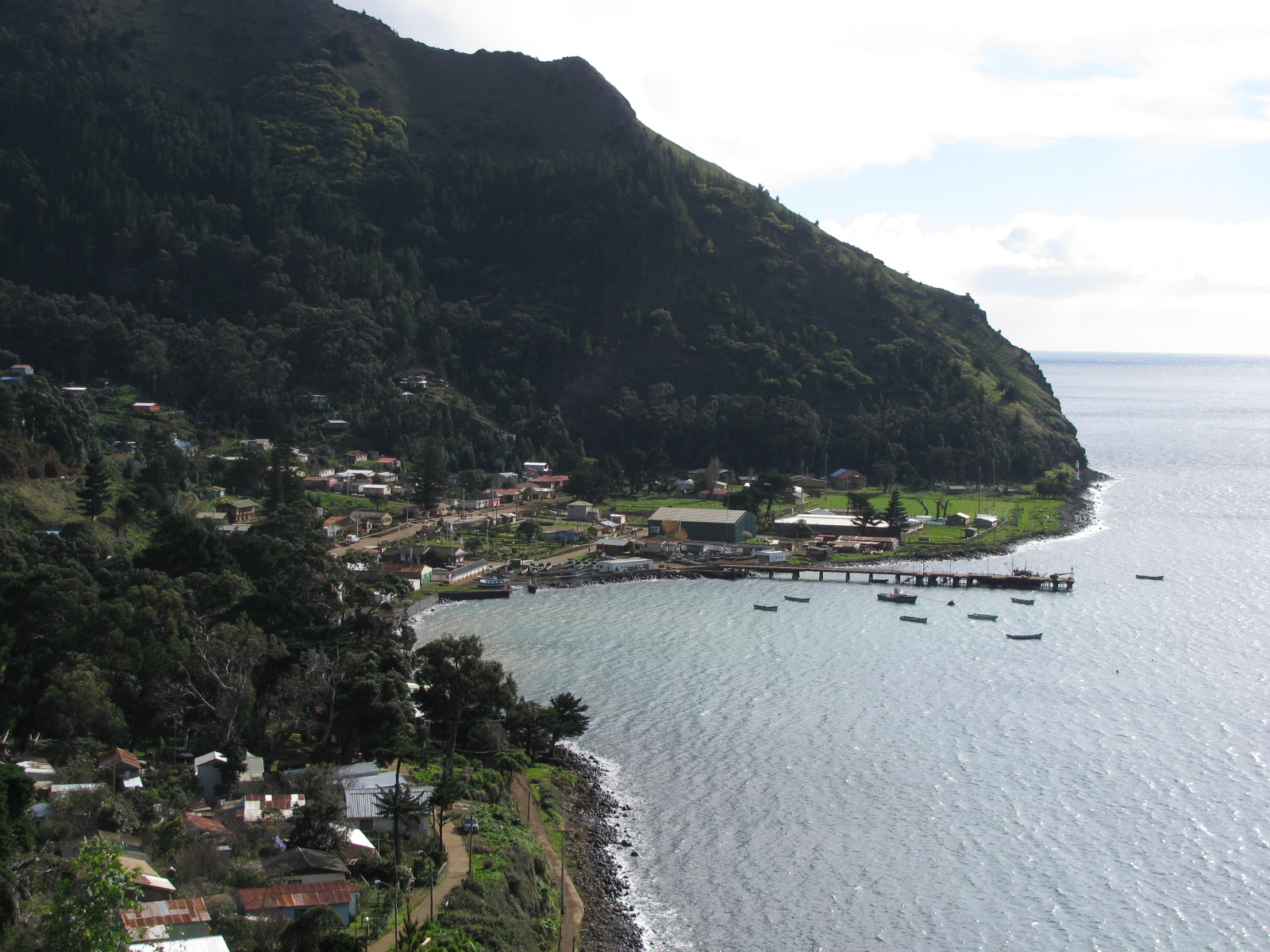 Northeast view of the cumberland's bay, Robinson Crusoe Island